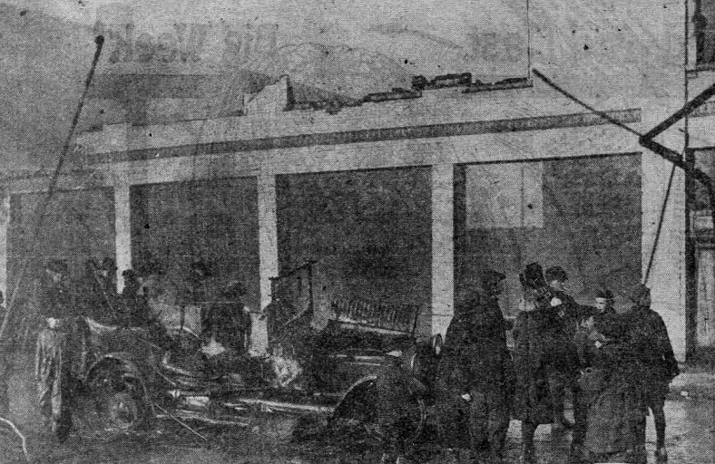 An image of the aftermath of a fire in Astoria, Oregon that occurred on December 8, 1922. The remnants of the Astoria Furniture Company and an automobile are visible.